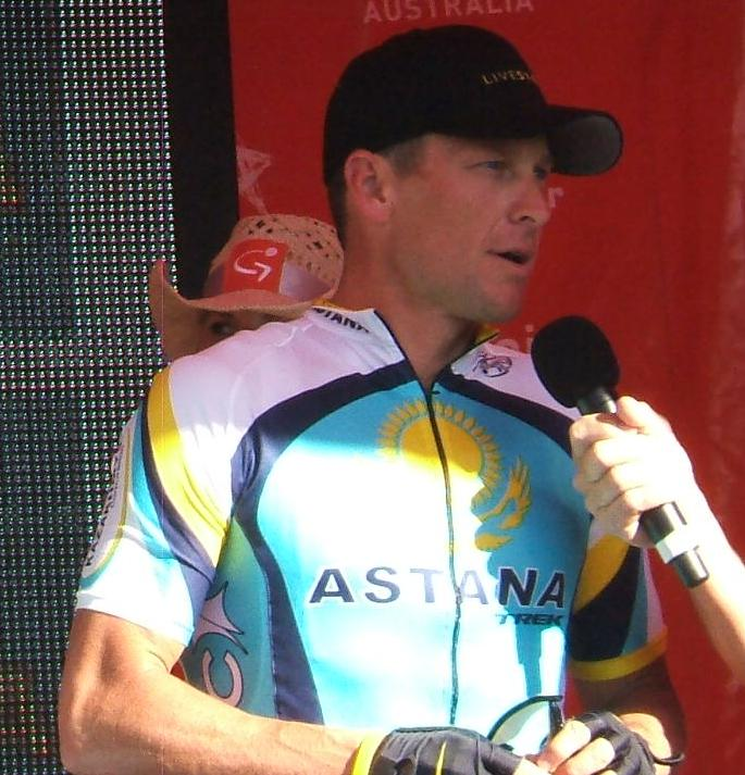 Named cyclist at the en:2009 Tour Down Under team presentation